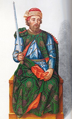 Portrait of the king Alfonso XI of Castile (1311-1350).